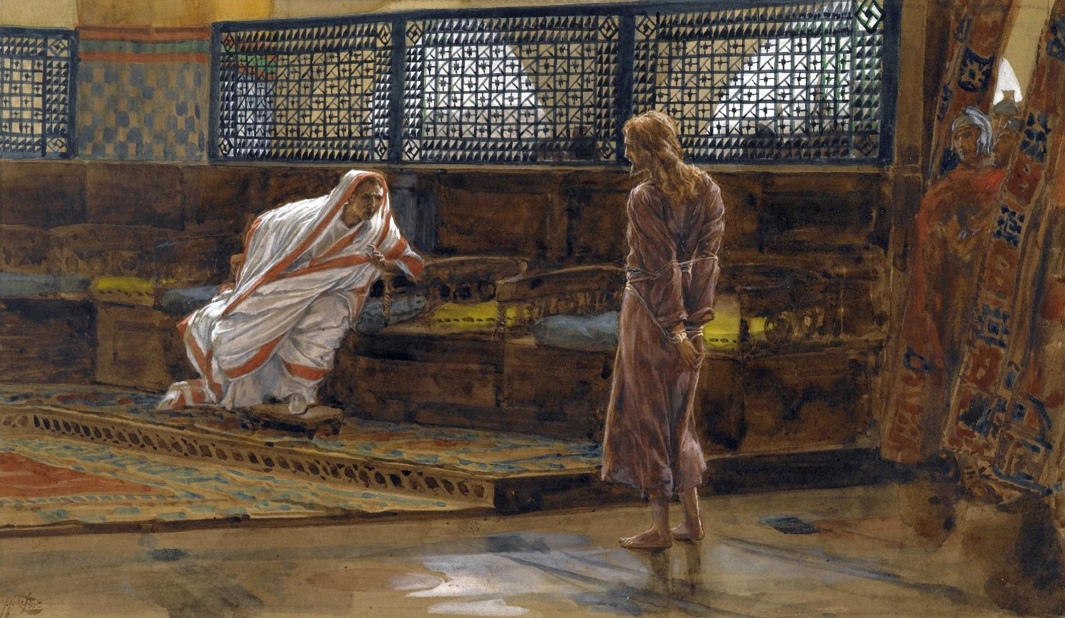 "The Court by Pilate". Jesus Before Pilate, First Interview